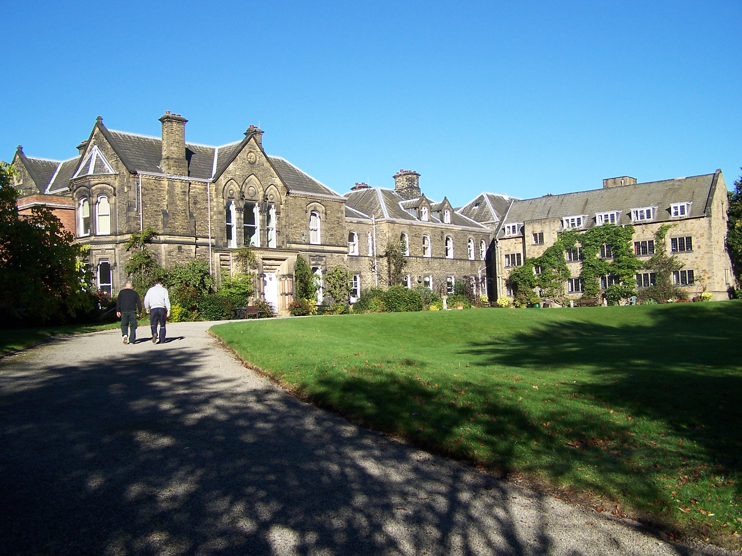 Picture of House of the Resurrection, Mirfield